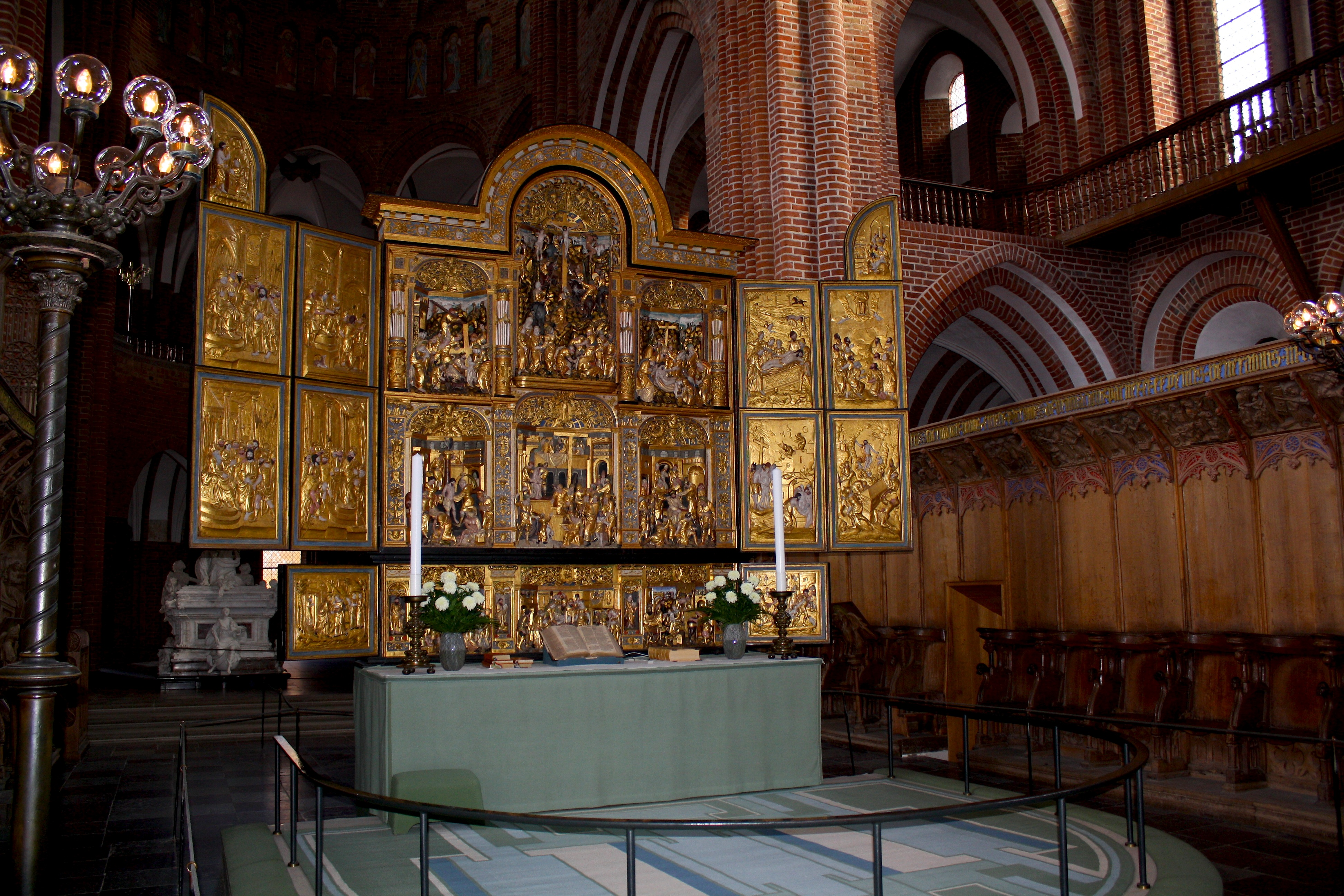 The high altar of Roskilde Cathedral